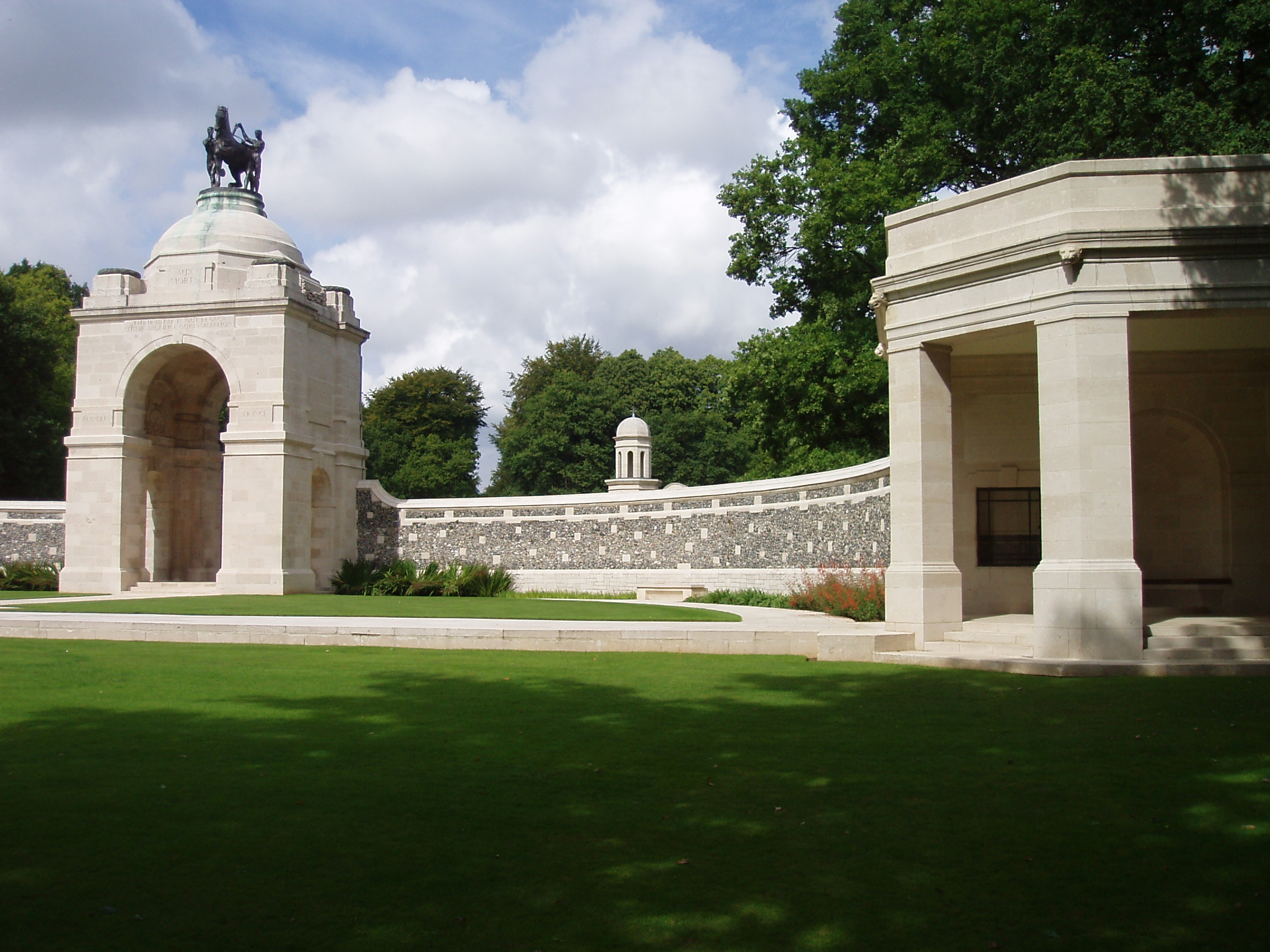 Part of a set of photographs of the Delville Wood South African National Memorial, near Longueval, France. This is a view of the right-hand half of the memorial.